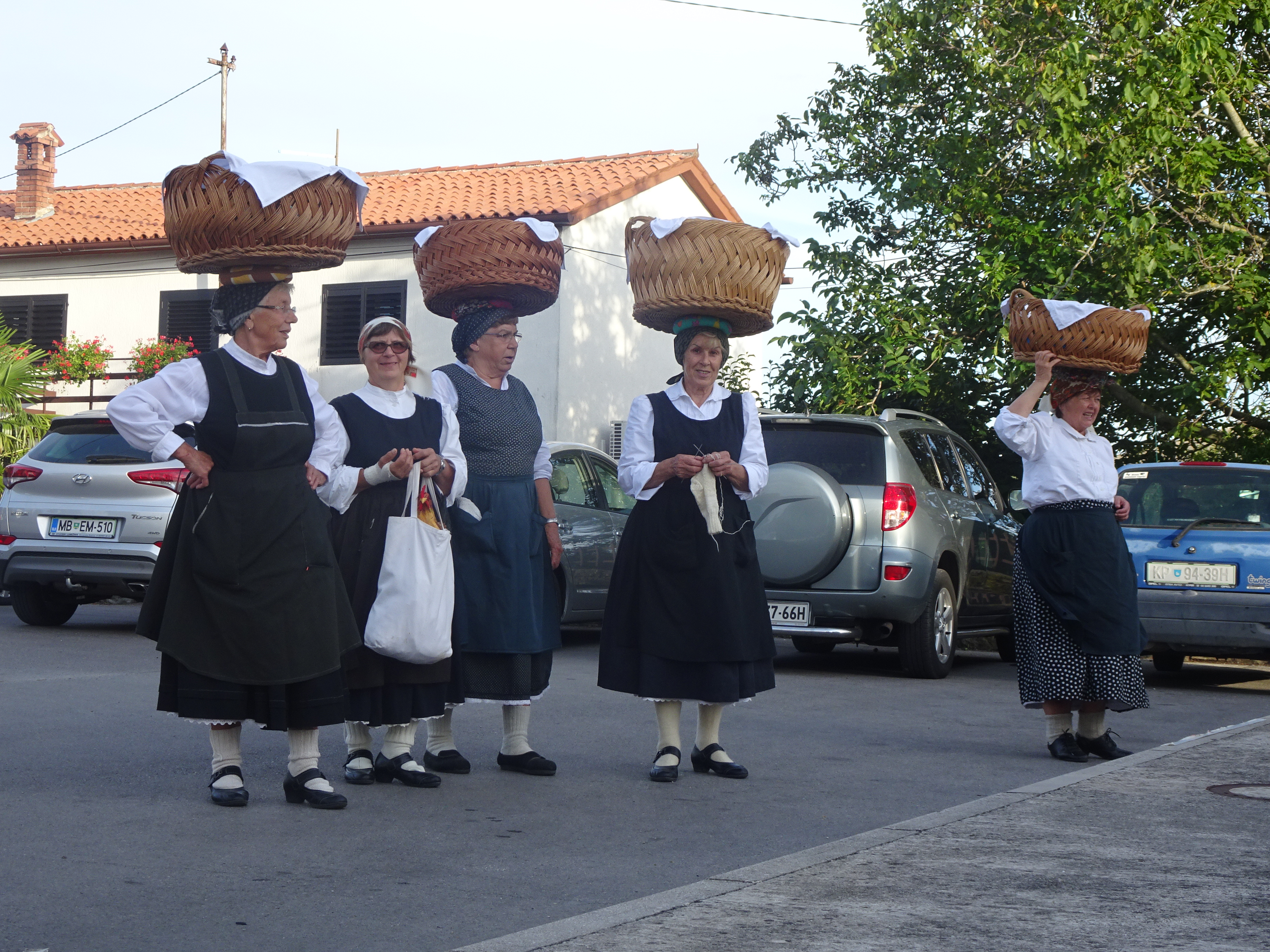 Šavrinke, local woman in folk costumes